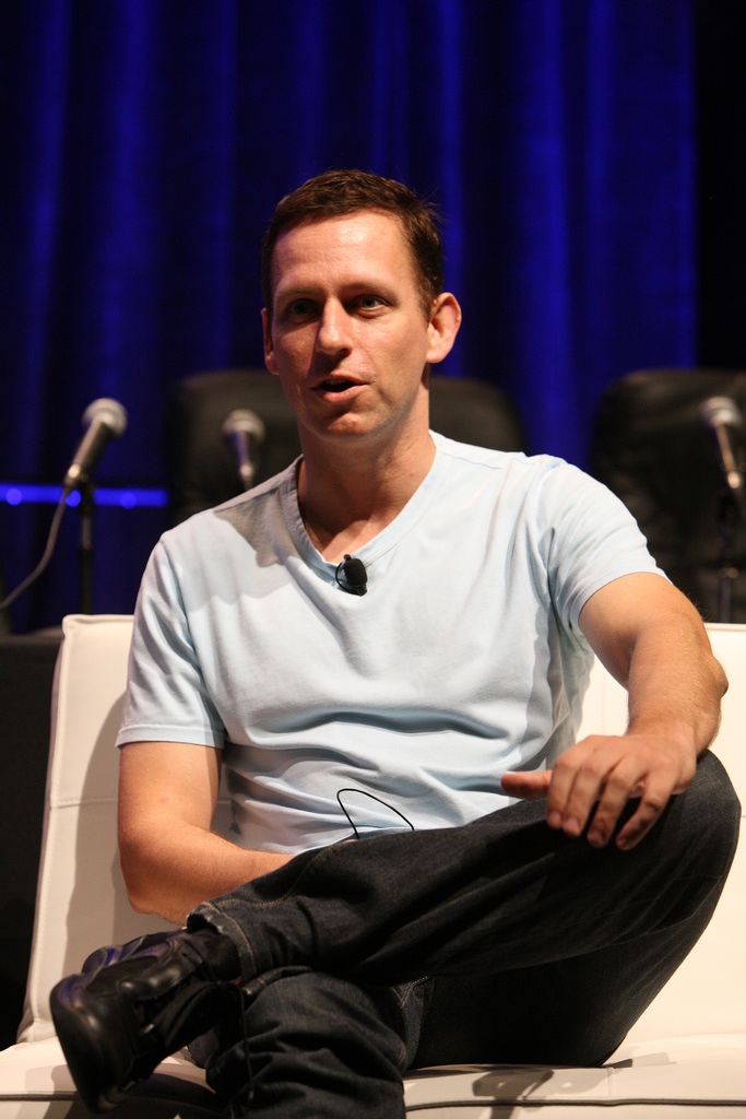 German-American entrepreneur Peter Thiel at the 2008 TechCrunch50 conference in San Francisco.